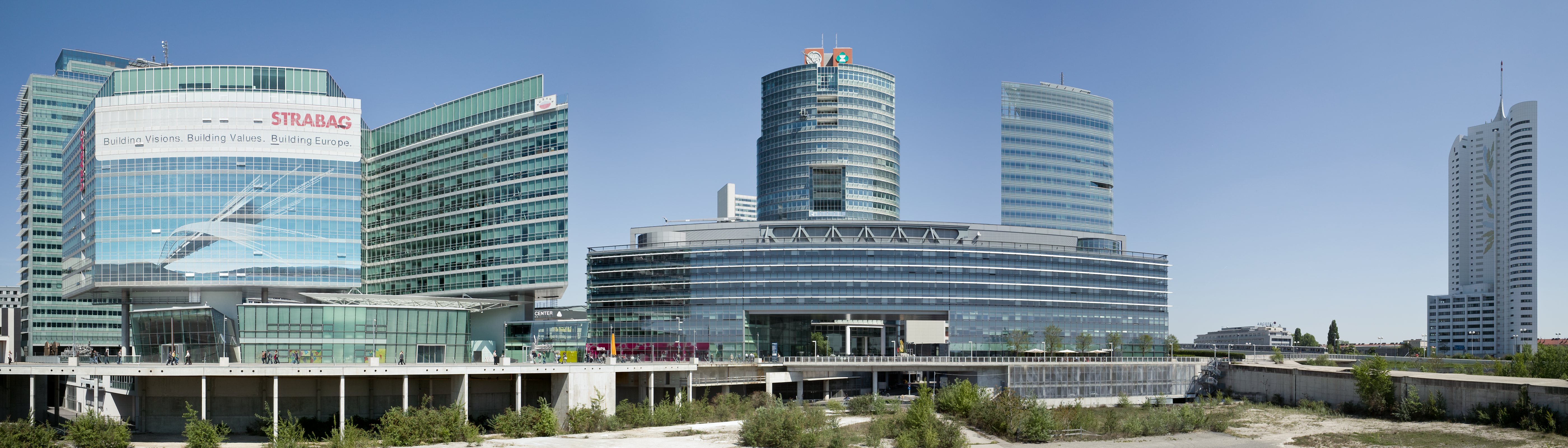 Panoramic Photo of the Donau City Vienna taken from the south-west on April 22, 2009, before the construction of the DC Tower 1.